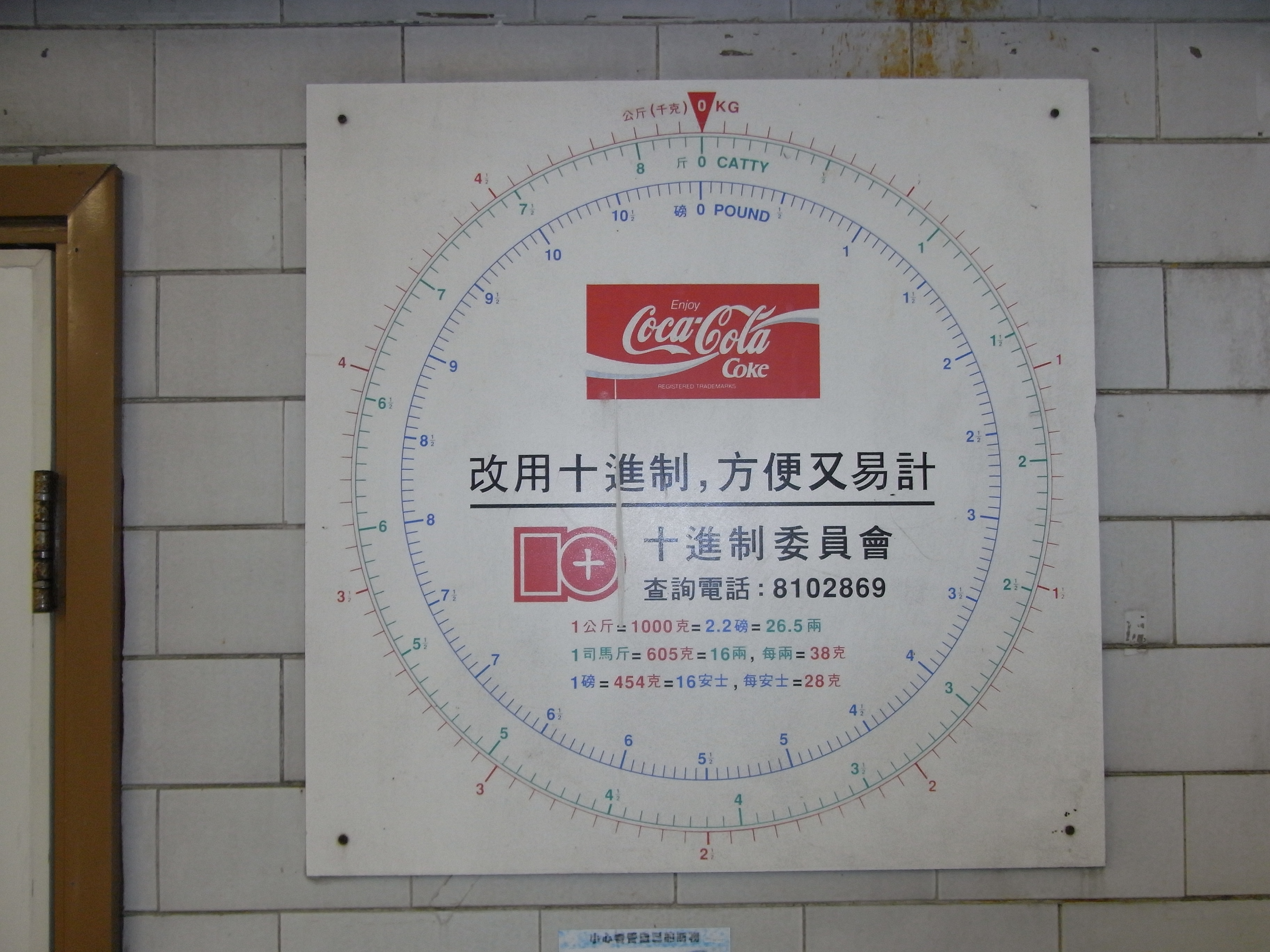 十進制委員會 sign of Weighing translation, Sheung Wan Market, Queen's Road Central, Sheung Wan, Hong Kong